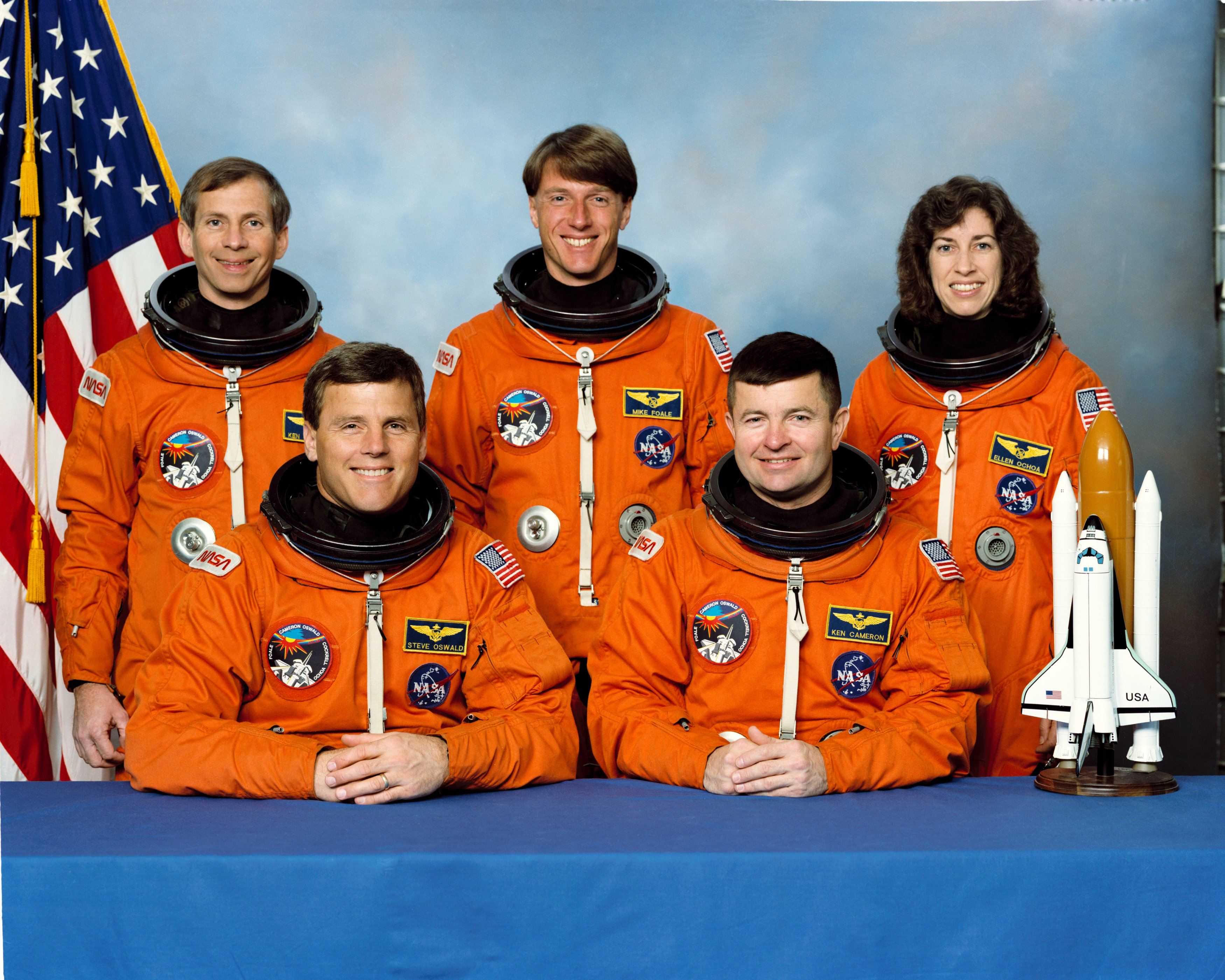 The STS-56 crew portrait includes five astronauts. Seated from the left are Stephen S. Oswald, pilot; and Kenneth D. Cameron, commander. Standing, from the left, are mission specialists Kenneth D. Cockrell, C. Michael Foale, and Ellen Ochoa. The crew launched aboard the Space Shuttle Discovery on April 8, 1993 at 1:29:00 am (EDT) with the Atmospheric Laboratory for Applications and Science-2 (ATLAS-2) as the primary payload.